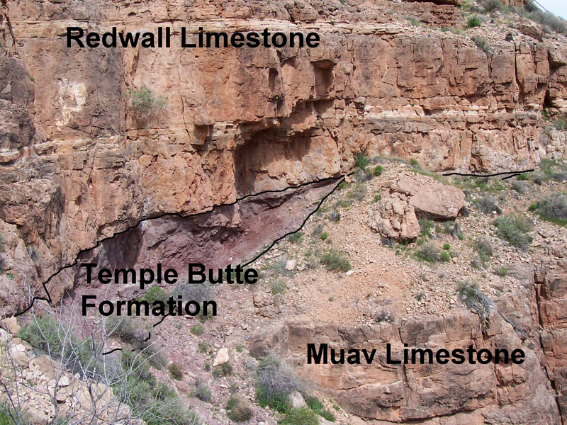 Redwall, Temple Butte and Muav formations in Grand Canyon